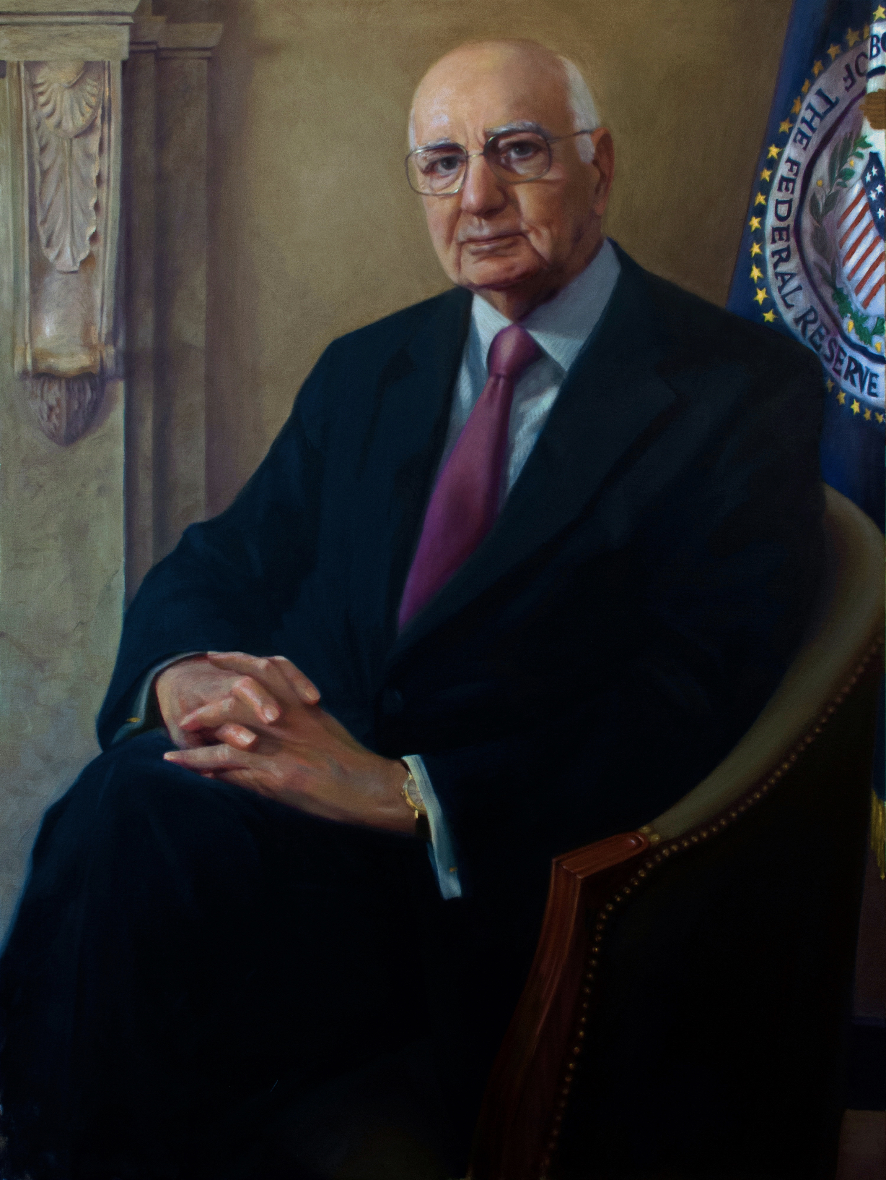 Portrait of Paul A. Volcker by Luis Alvarez Roure. 2015. Oil on linen. 40 x 30 inches. Collection of the Board of Governors of the Federal Reserve System.